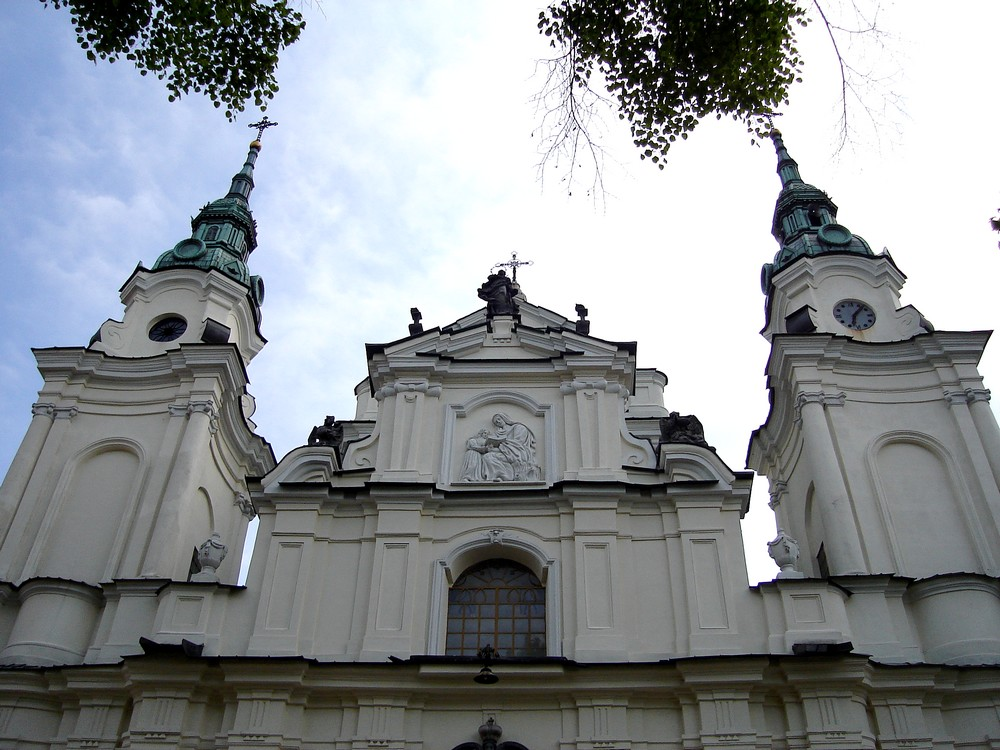 St. Anna`s church - Lubartów